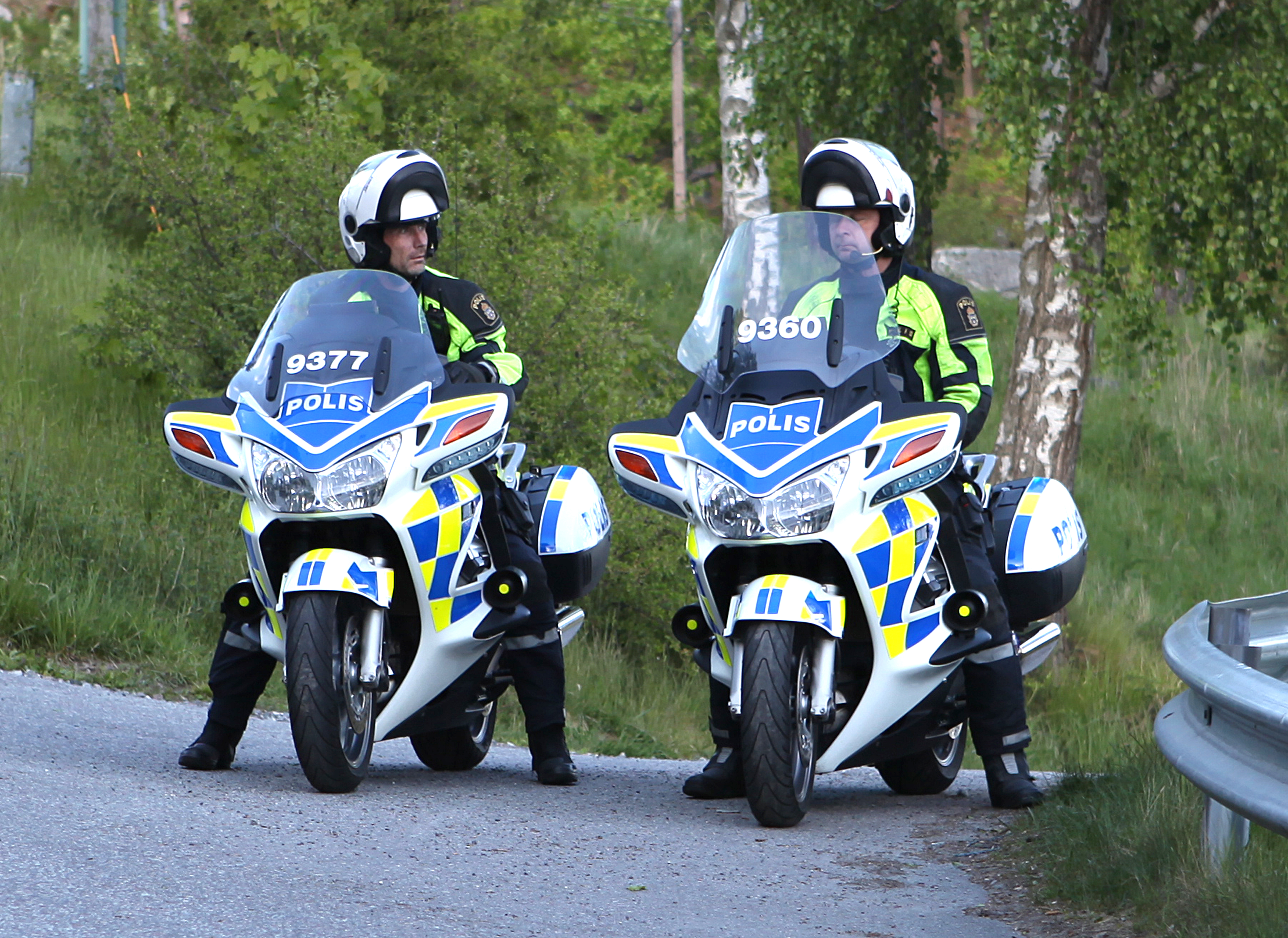 Swedish police on motorcycles.